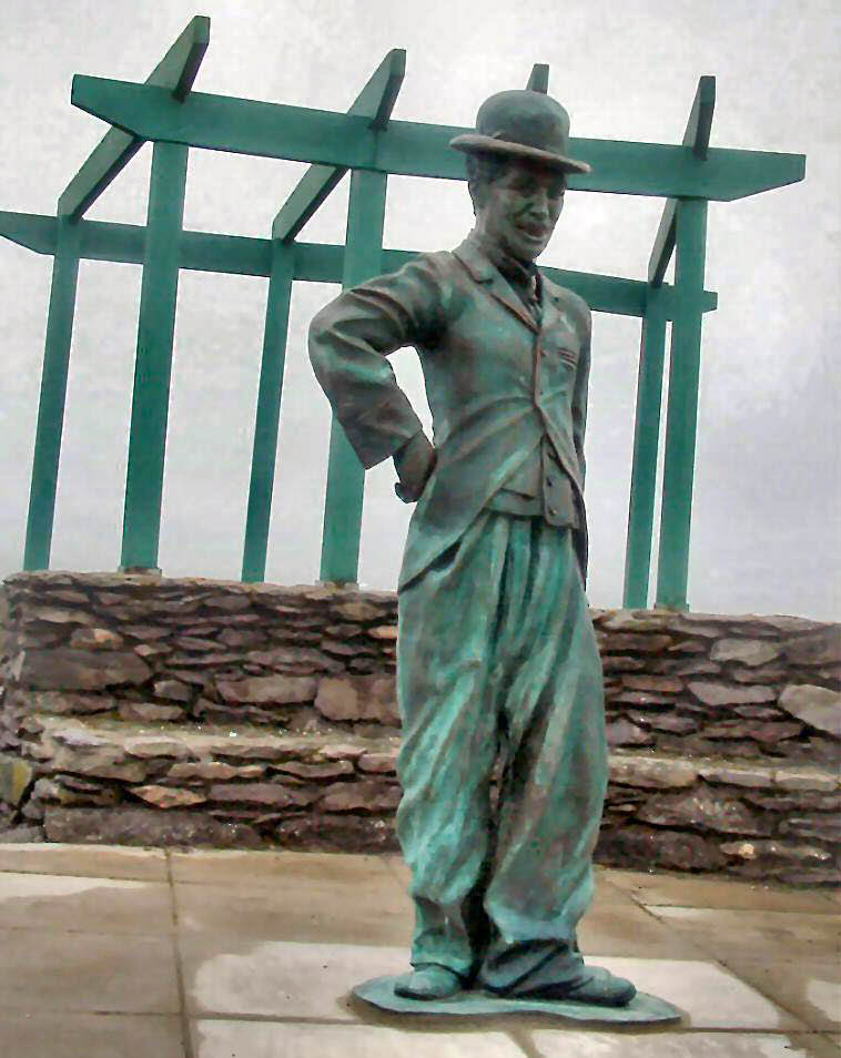 Charlie Chaplin bronze statue in Waterville, County Kerry, Ireland. More details.